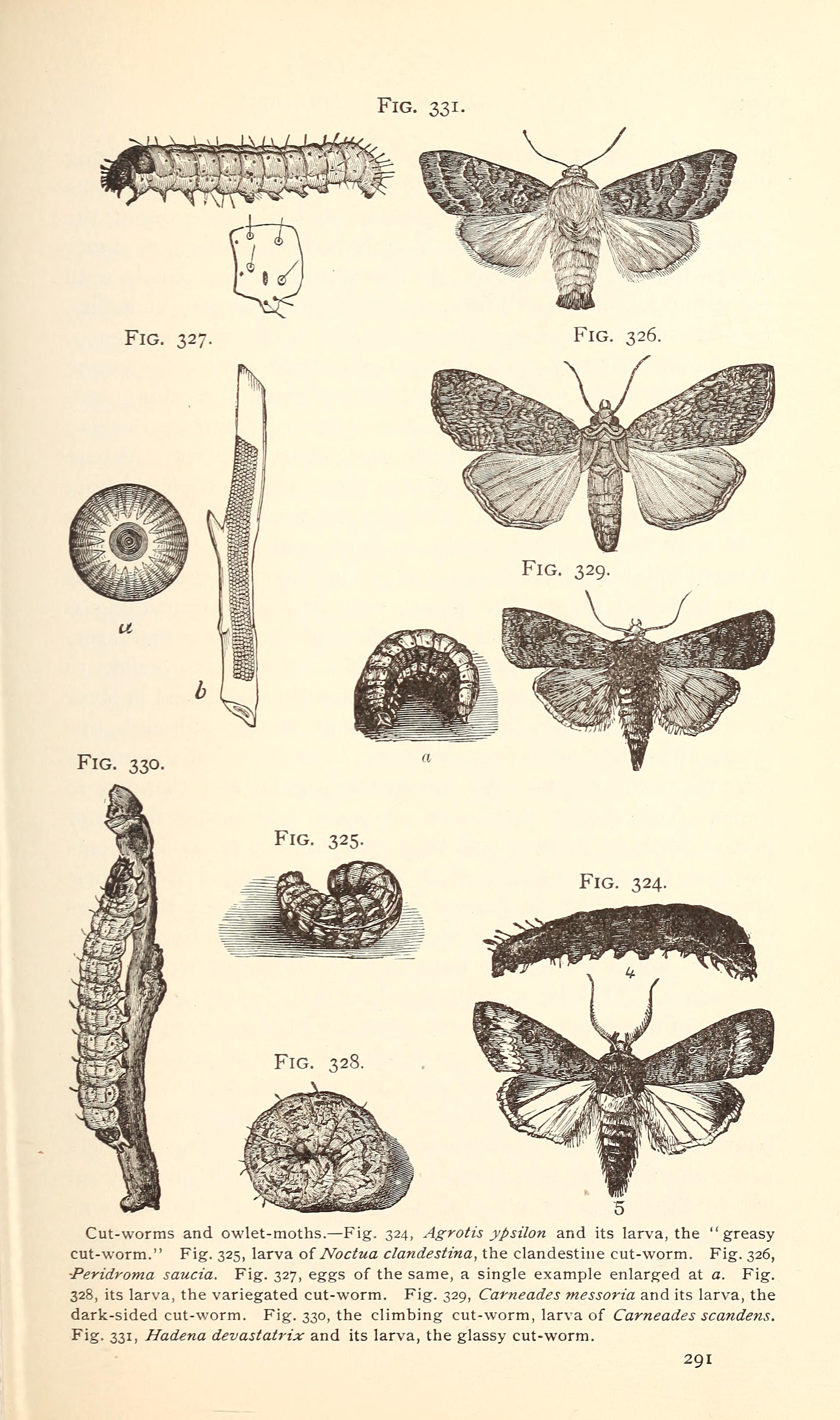 Title: Economic entomology for the farmer.. Year: 1896 (1890s) Authors: Smith, John B. (from old catalog) Subjects: Publisher: (n. p. ) Text Appearing Before Image: Fig. 331. Text Appearing After Image: Cut-worms and owlet-moths.—Fig. 324, Agrotis ypsilon and its larva, the "greasy cut-worm." Fig. 325, larva of Noctua clandestina, the clandestine cut-worm. Fig. 326, -Peridroma saucia. Fig. 327, eggs of the same, a single example enlarged at a. Fig. 328, its larva, the variegated cut-worm. Fig. 329, Carneades messoria and its larva, the dark-sided cut-worm. Fig. 330, the climbing cut-worm, larva of Carneades scandens. Fig. 331, Hadena devastatrix and its larva, the glassy cut-worm. 291